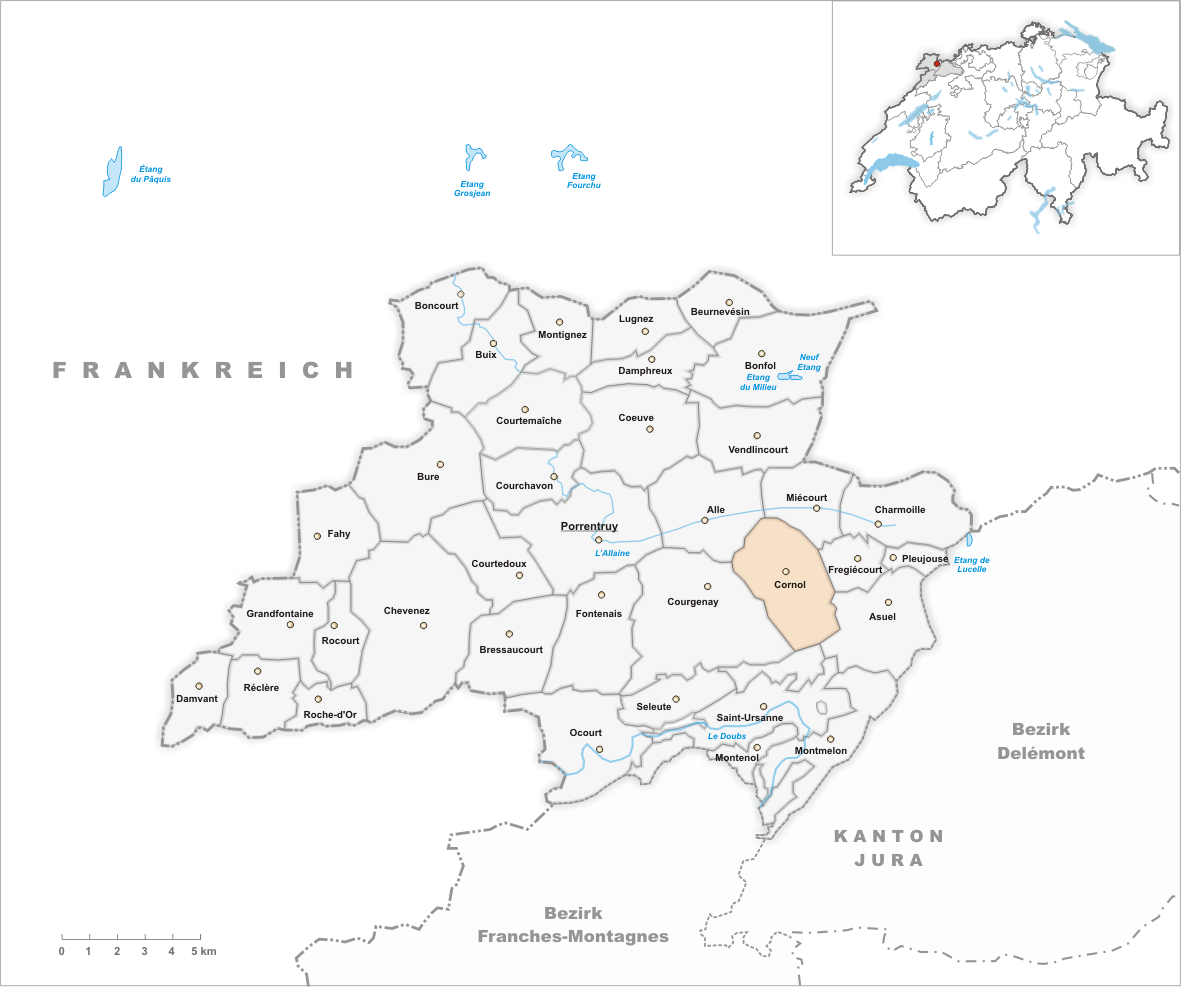 Municipality Cornol Artist: Tschubby